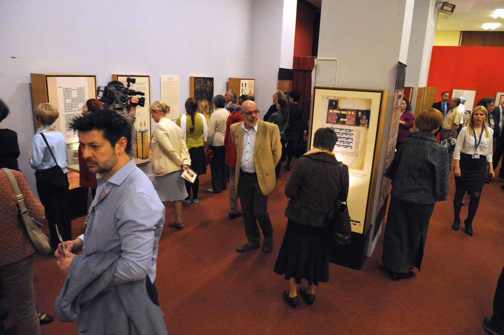 This unique exhibition presents the ties of the Jewish people to the Land of Israel (Eretz Ysrael), to the cradle of Hebrew language, script and Jewish literature. Although throughout the ages, Jewish people had often been forced into exile or diaspora, language remained the single common tie connecting Jews across the world. During the medieval and modern history of Jewry, there had been different language versions used by the various Jewish communities. However, Hebrew script, let it come from any period of history, has been legible for the man of the modern age since the Dead Sea Scrolls were discovered. All of the displayed objects depict Hebrew letters and captions, they are related to religious customs and were used in homes or in synagogues as ceremonial objects.